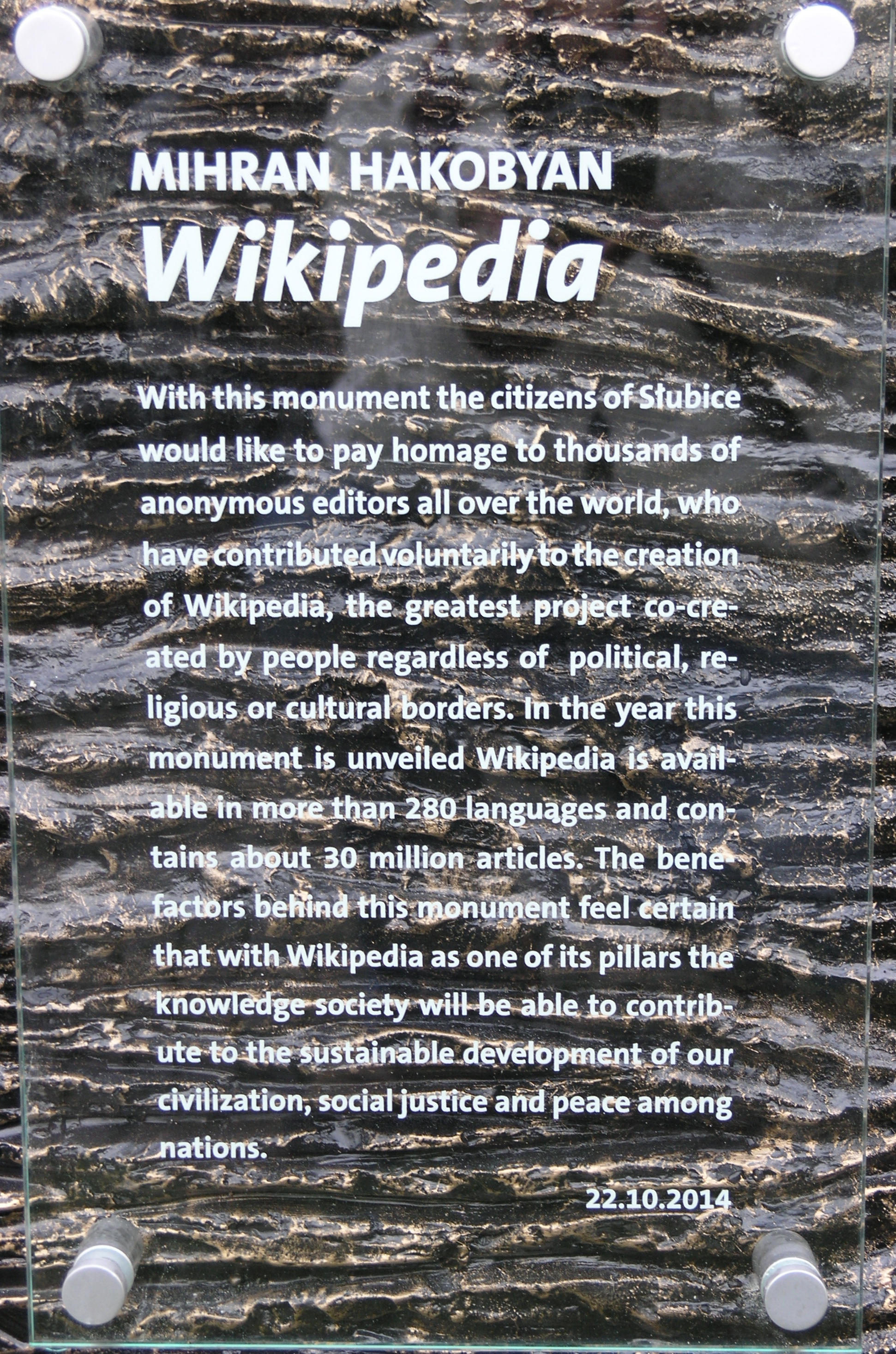 Wikipedia Monument in Słubice - Inscription (En.) Słubice (Poland) - Frankfurter Platz (Plac frankfurcki).